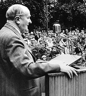 Gustav Möller talking about the pension issue at a senior meeting at Skansen in Stockholm July 12, 1957, a few months before the ATP vote.